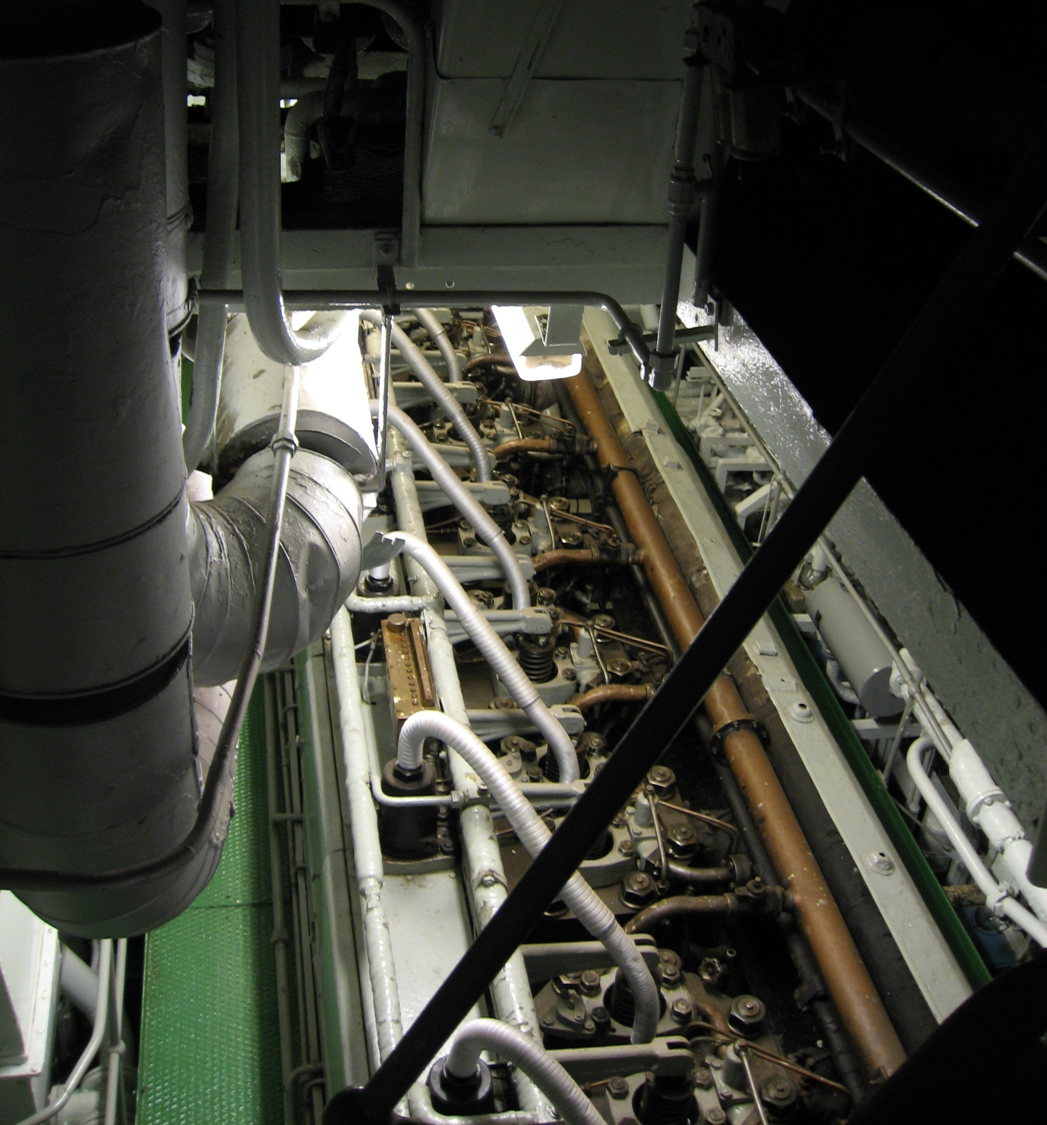 Engine room of the former norwegian coastal express ship (hurtigruten) MS Finnmarken from 1956.